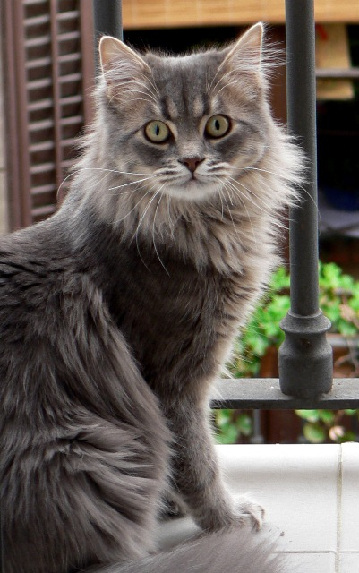 MacNagec cat of Glensarria